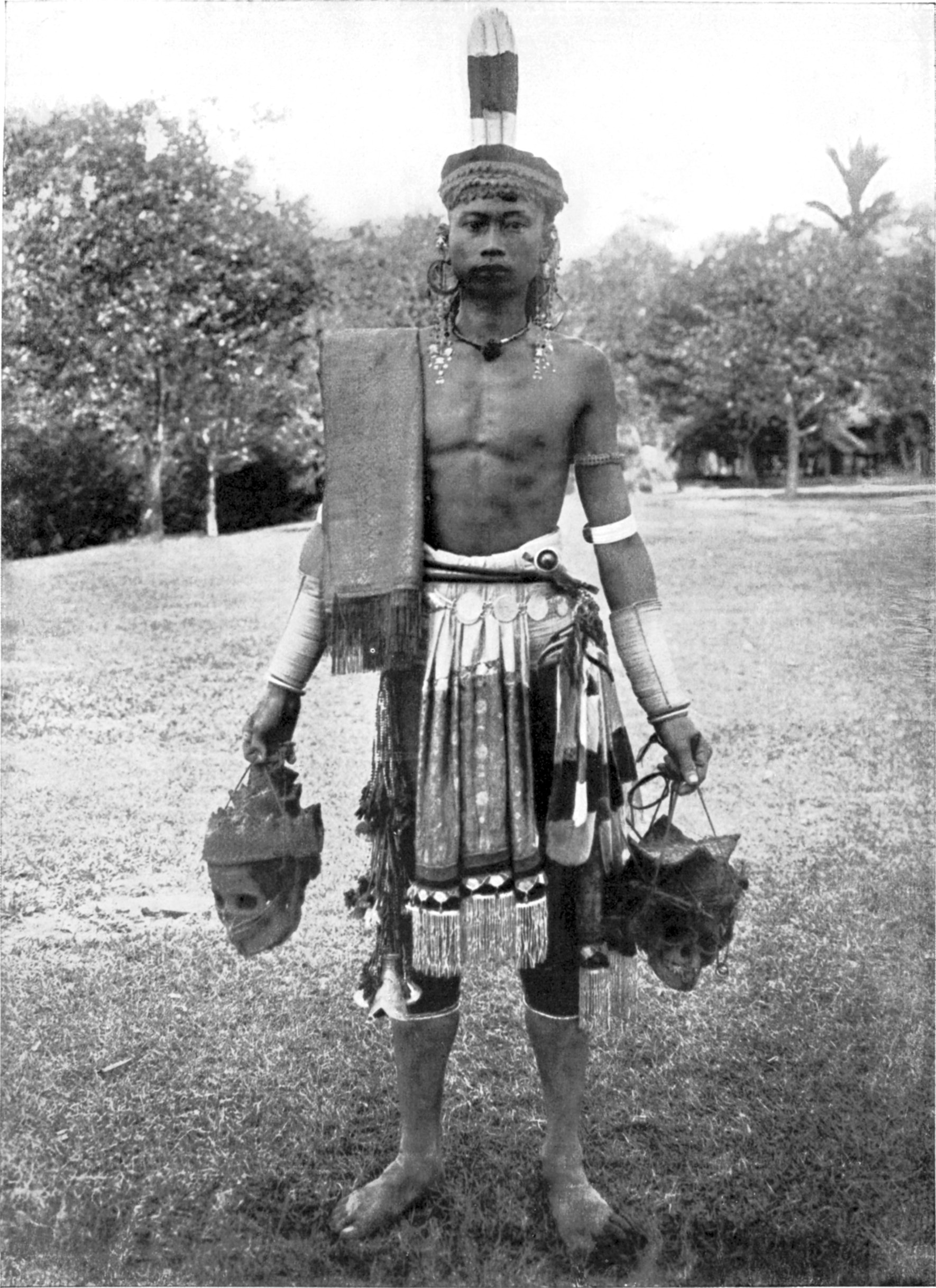 Dayak man in gala costume. Every year or two the Iban Dayaks hold a feast called Gawai Autu in honour of the departed spirits which they believe surround the heads which hang in their houses. In this manner they hope to keep in favour with the spirits and so have good fortune.